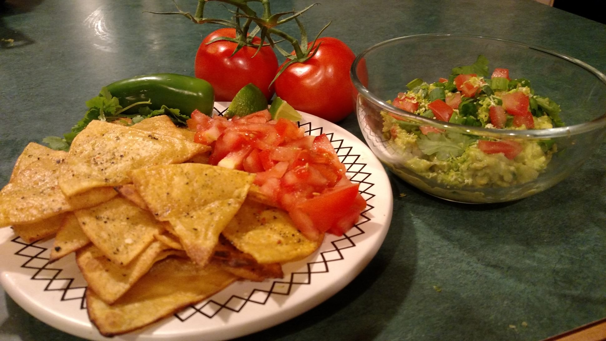 Guacamole with Homemade Tortilla Chips by Chef Mancave.